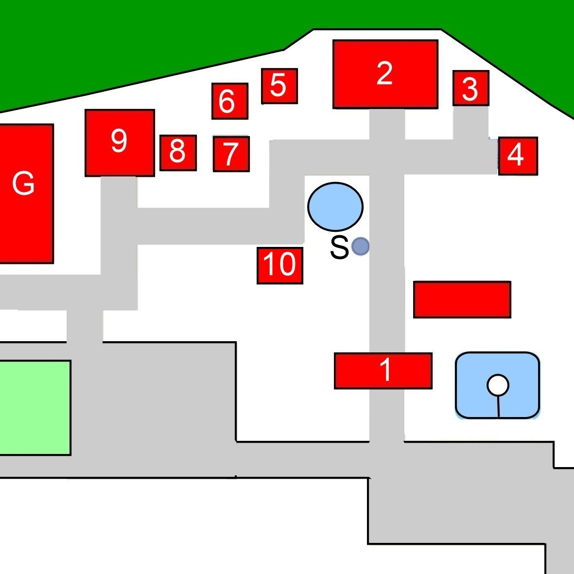 Layout of Kongôfuku-ji at Tosashimizu (Kōchi prefecture)